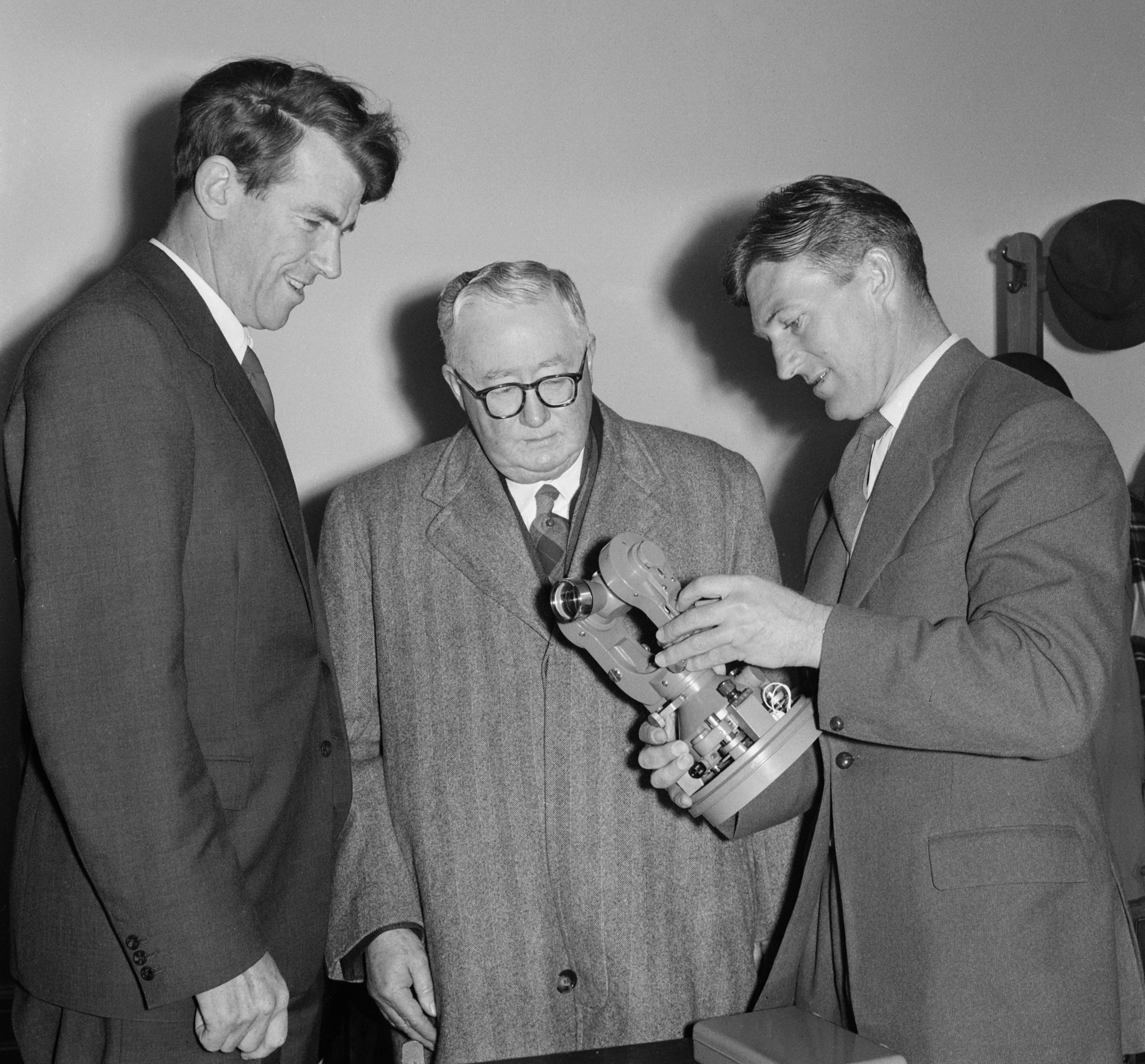 Sir Edmund Hillary (left), Sir William Appleton (centre) and F. Holmes Miller with an unidentified instrument, possibly a navigation instrument or microscope. Photograph taken for The Evening Post by an unidentified staff photographer in 1956. Physical Description: Cellulosic film negative, 6.5 x 6.5 cm